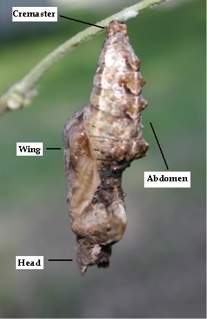 Annotated diagram of Chrysalis of Gulf Fritillary, (Agraulis vanillae)